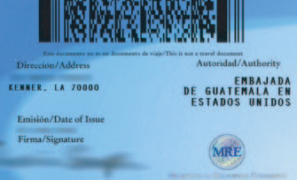 Specimen of the Guatemalan CID card (back side) A.K.A. Tarjeta de Identificación Consular Guatemalteca